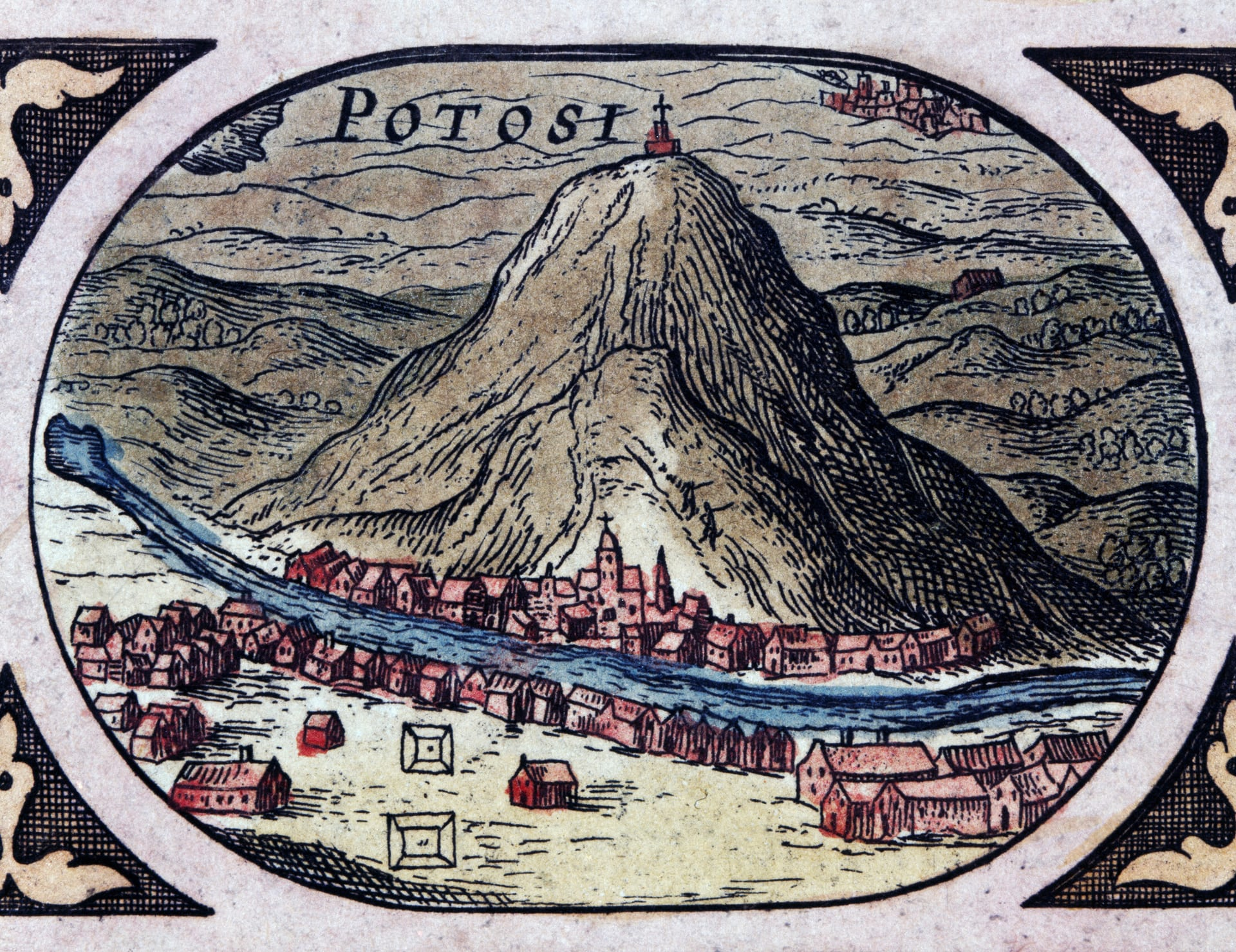 At its peak in the early 17th century, 160,000 native Peruvians, African slaves and Spanish settlers lived in Potosí.